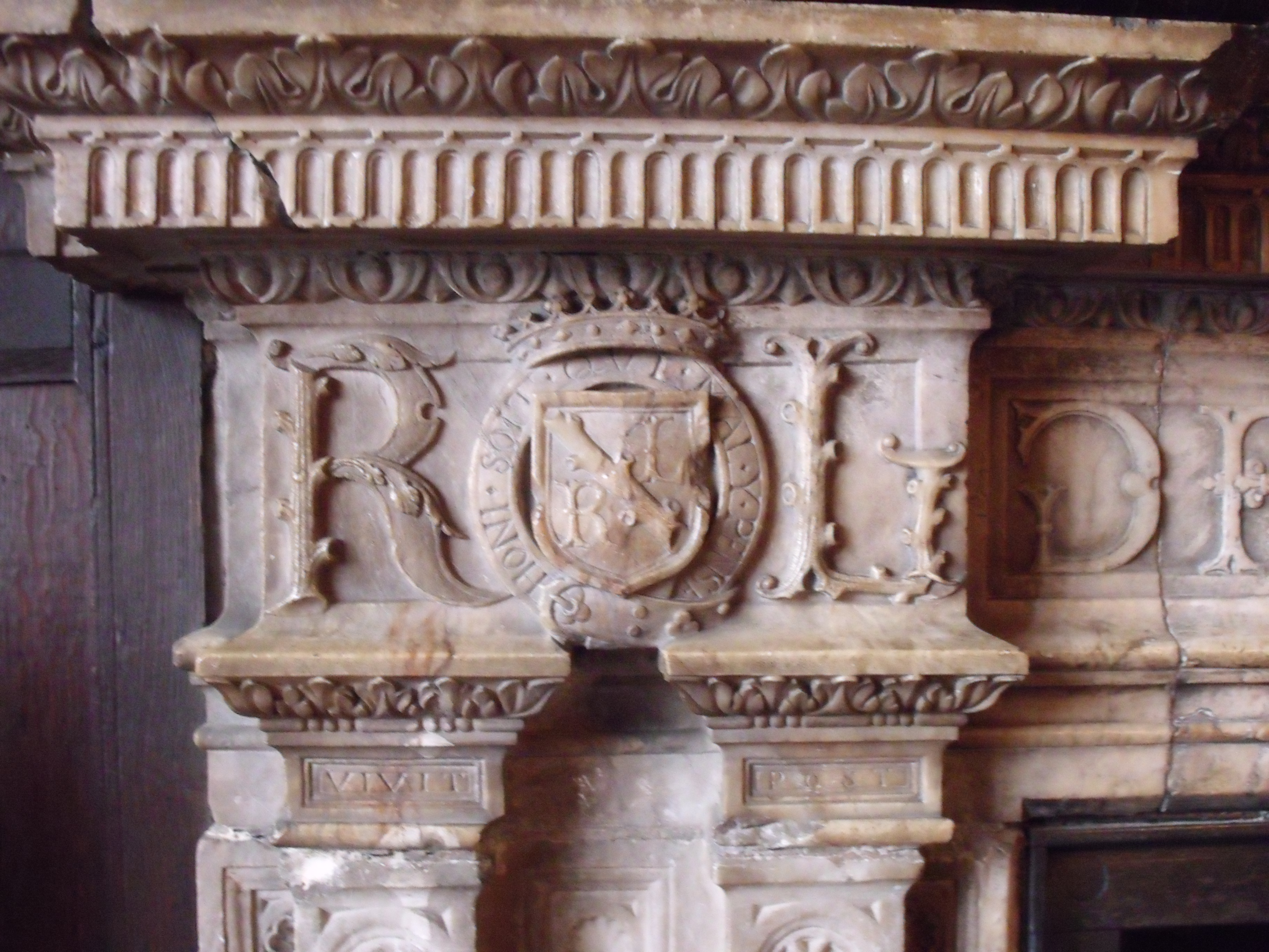 A marble fireplace in Leicester's Gatehouse, Kenilworth Castle, Warwickshire, with initials of Robert Dudley, Earl of Leicester (R & L for Robert Leicester) and the Ragged Staff heraldic badge, used by the Earls of Warwick, circumscribed by the Garter. Sable, a ragged staff argent is the attributed coat of arms of Morvidus (as stated in Berry, William, Encyclopaedia Heraldica Or Complete Dictionary of Heraldry, Volume 2, 1828[1]) an Earl of Warwick and legendary king of the Britons from 341 to 336 BC., as recounted by Geoffrey of Monmouth. The letters R and L on either side of the shield are also in the form of ragged staffs. Underneath vivit post, "he lived after"